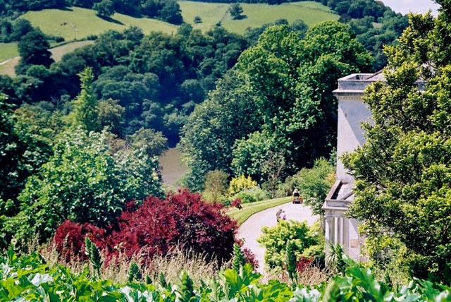 Greenaway from the garden above Greenaway from the garden path above, I believe the electric wheelchair on the forecourt is being driven by Rosalind Hicks the daughter of Agatha Christie.